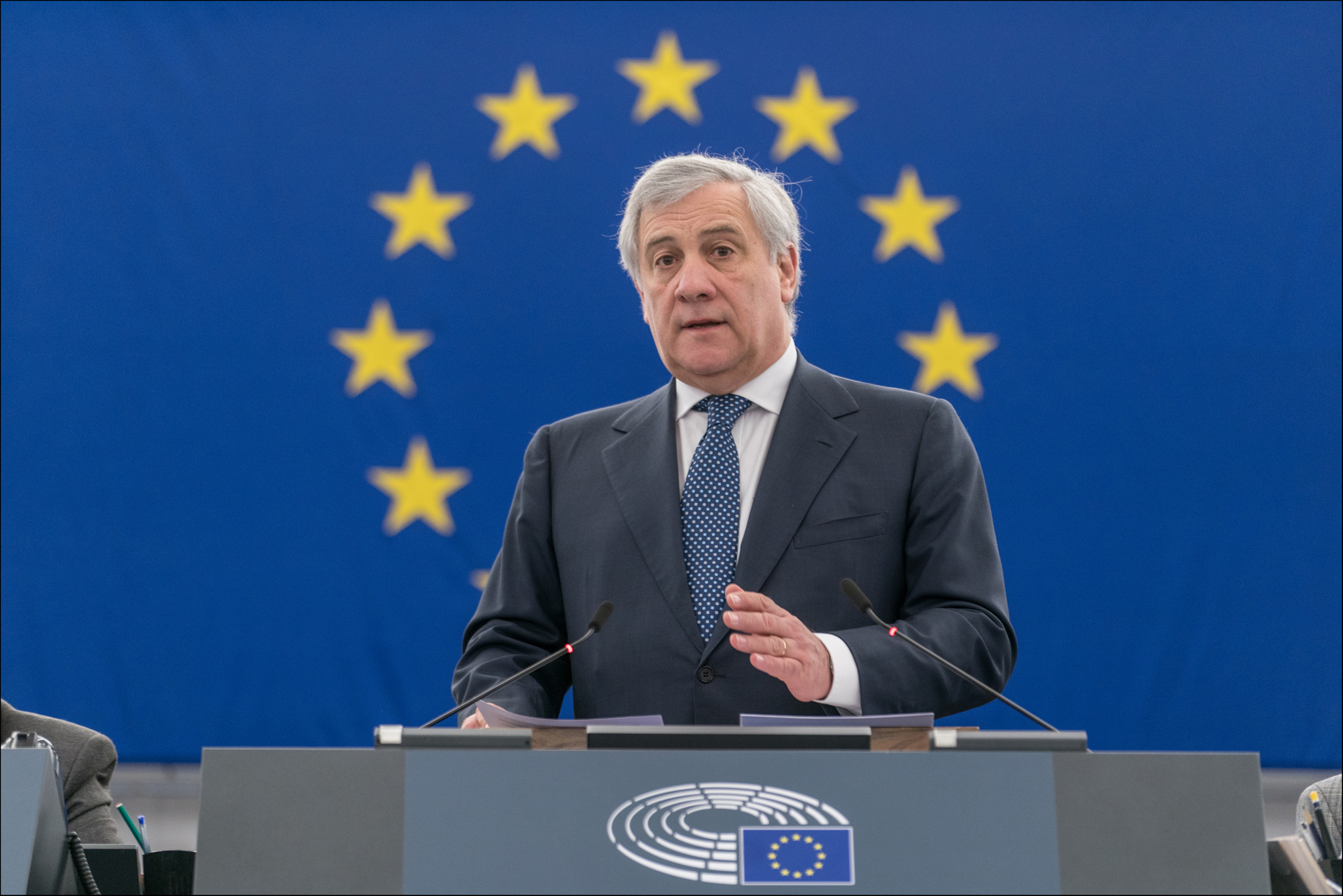 Following the UK parliament's rejection of the Brexit deal in a vote last evening, members of the European Parliament have underlined that the EU will remain united and that citizens’ rights are Europe's priority. Speaking in a debate in Parliament today, Commission Vice-President Frans Timmermans said commitments on the peace process and the border in Ireland or on citizens’ rights cannot be watered down. Parliament's lead member on Brexit @guyverhofstadt called on UK politicians to build a positive majority to break the Brexit deadlock. READ MORE ►► This photo is free to use under Creative Commons license CC-BY-4.0 and must be credited: "CC-BY-4.0: © European Union 20XY – Source: EP". ( No model release form if applicable. For bigger HR files please contact: webcom-flickr(AT)